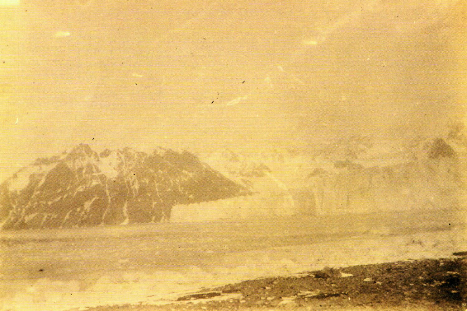 Neumayer Glacier seen from north, front of the glacier (southem part), plateau north of the glacier